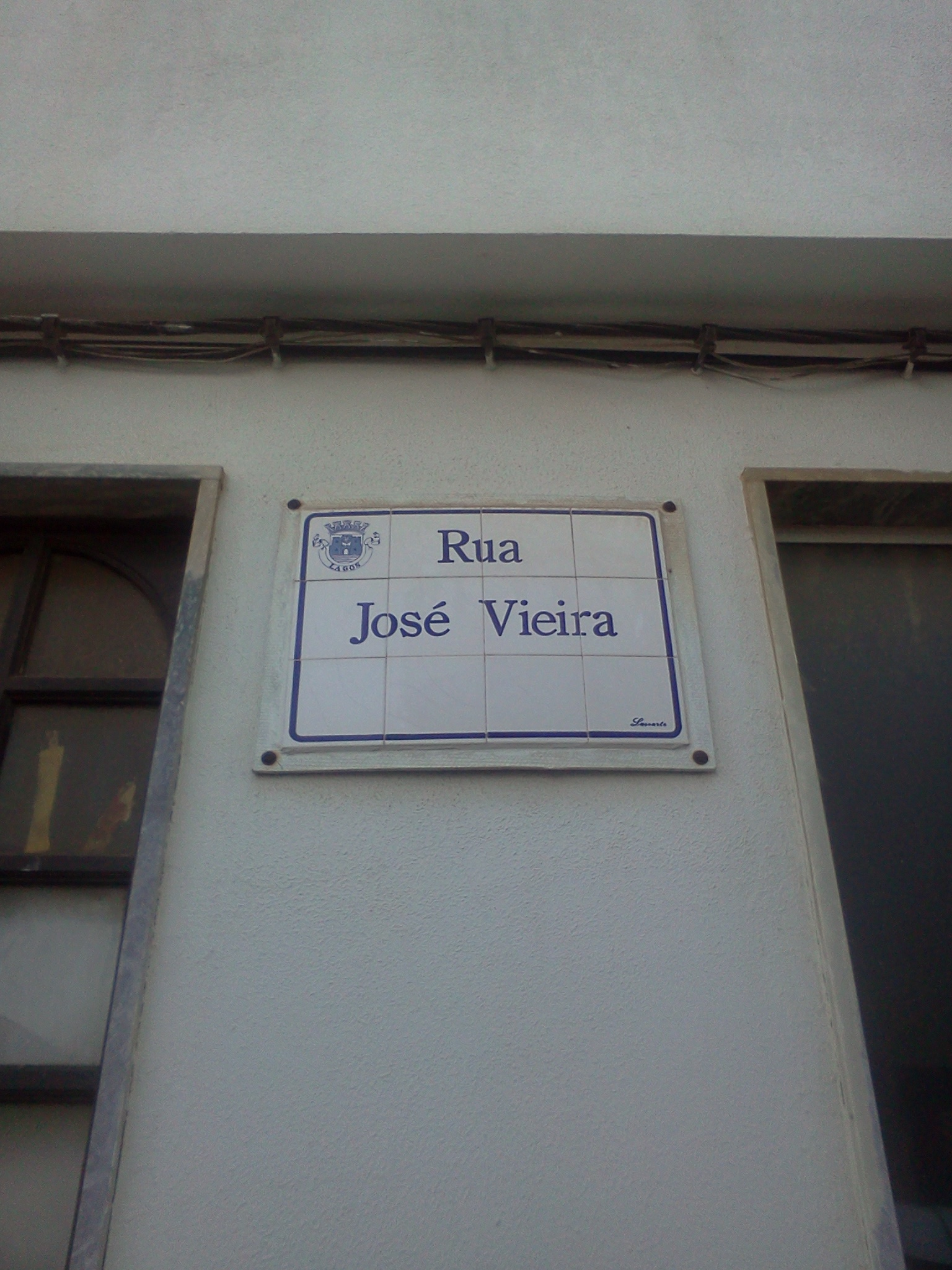 Street sign of Rua José Vieira, in the city of Lagos, in southern Portugal.